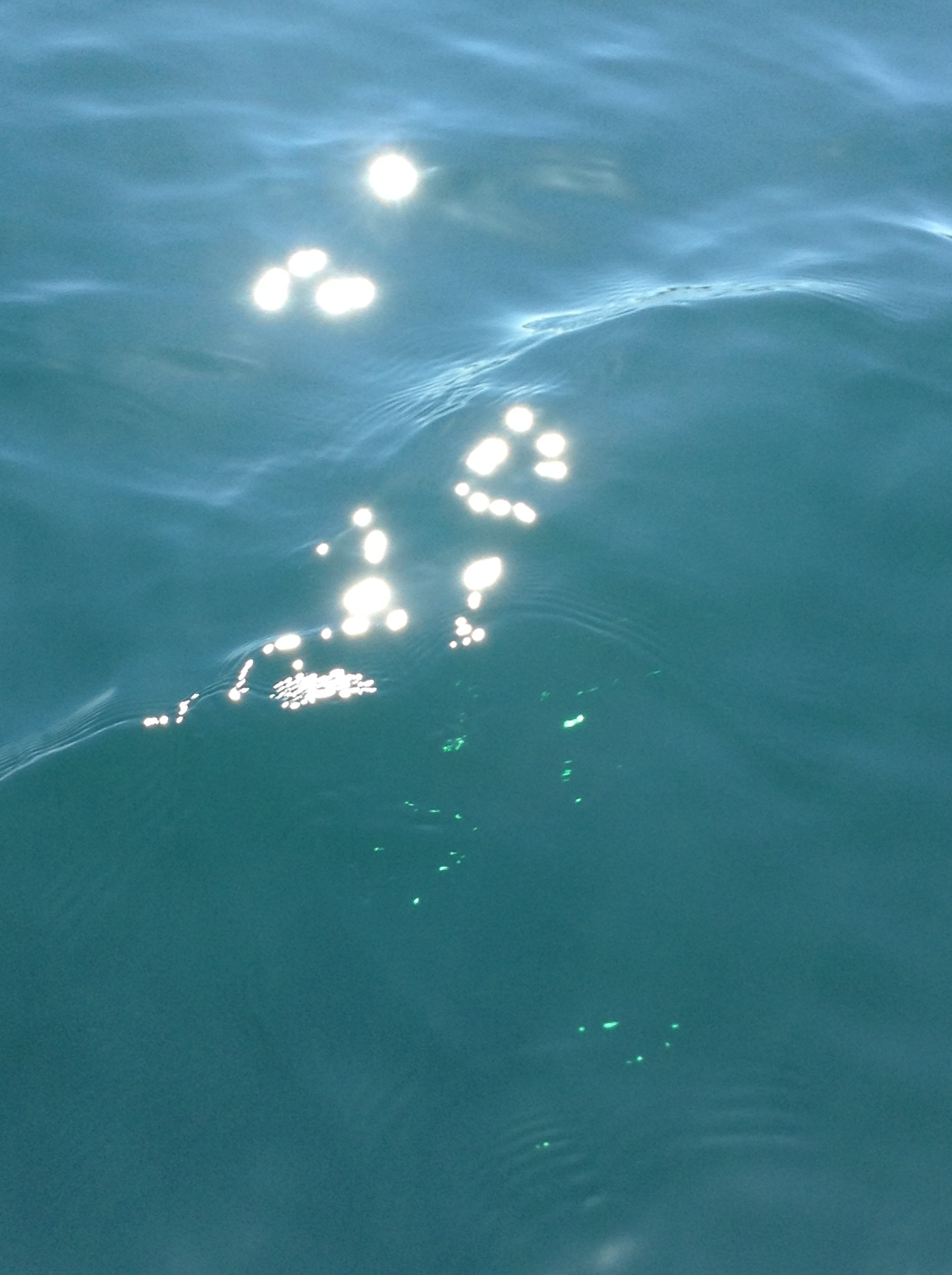 Turquoise water with a bit of sun.